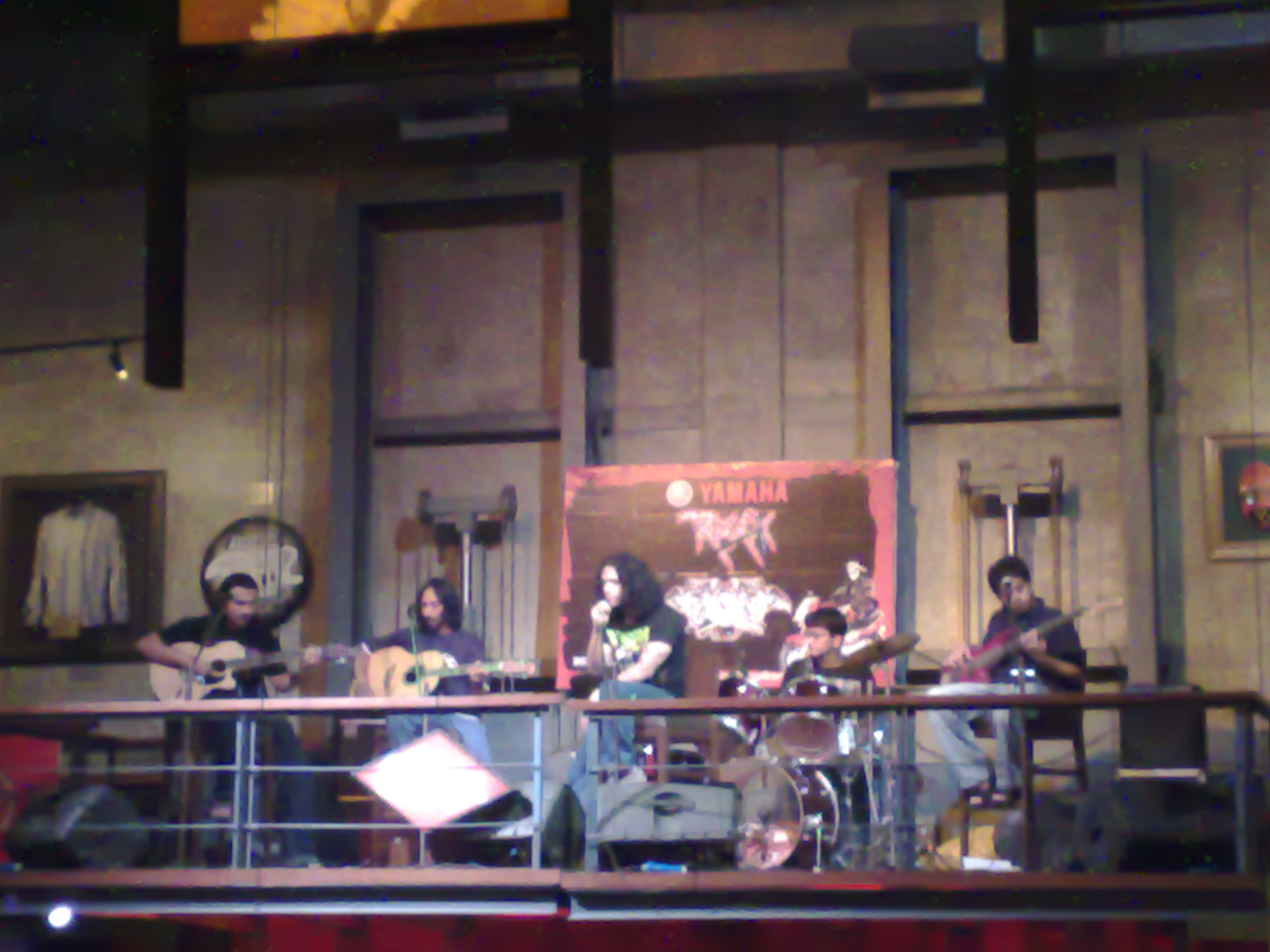 Hundred Octane unplugged live- Hard Rock Cafe, Mumbai